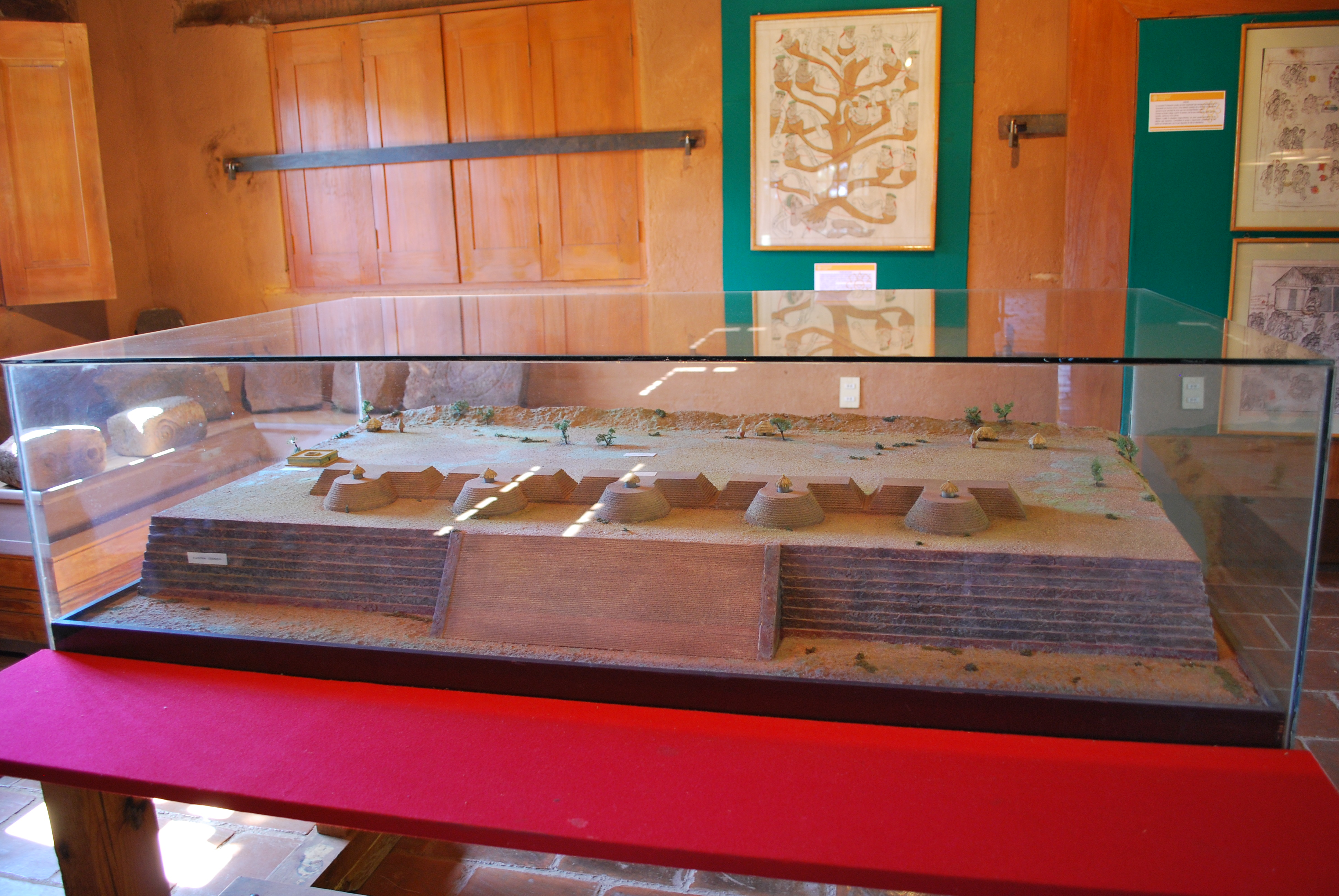 Model of the ruins of Tzintzuntzan on display at the site museum